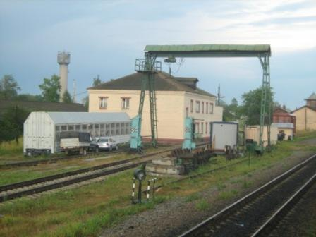 Sonkovo railway station